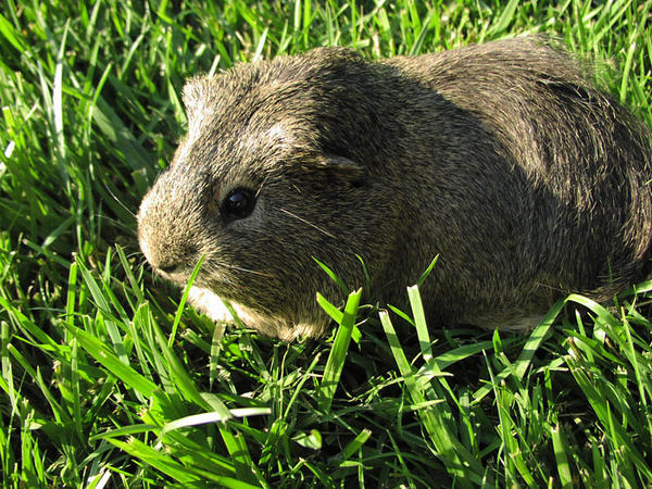 This image is taken myself and I release it to the public domain.